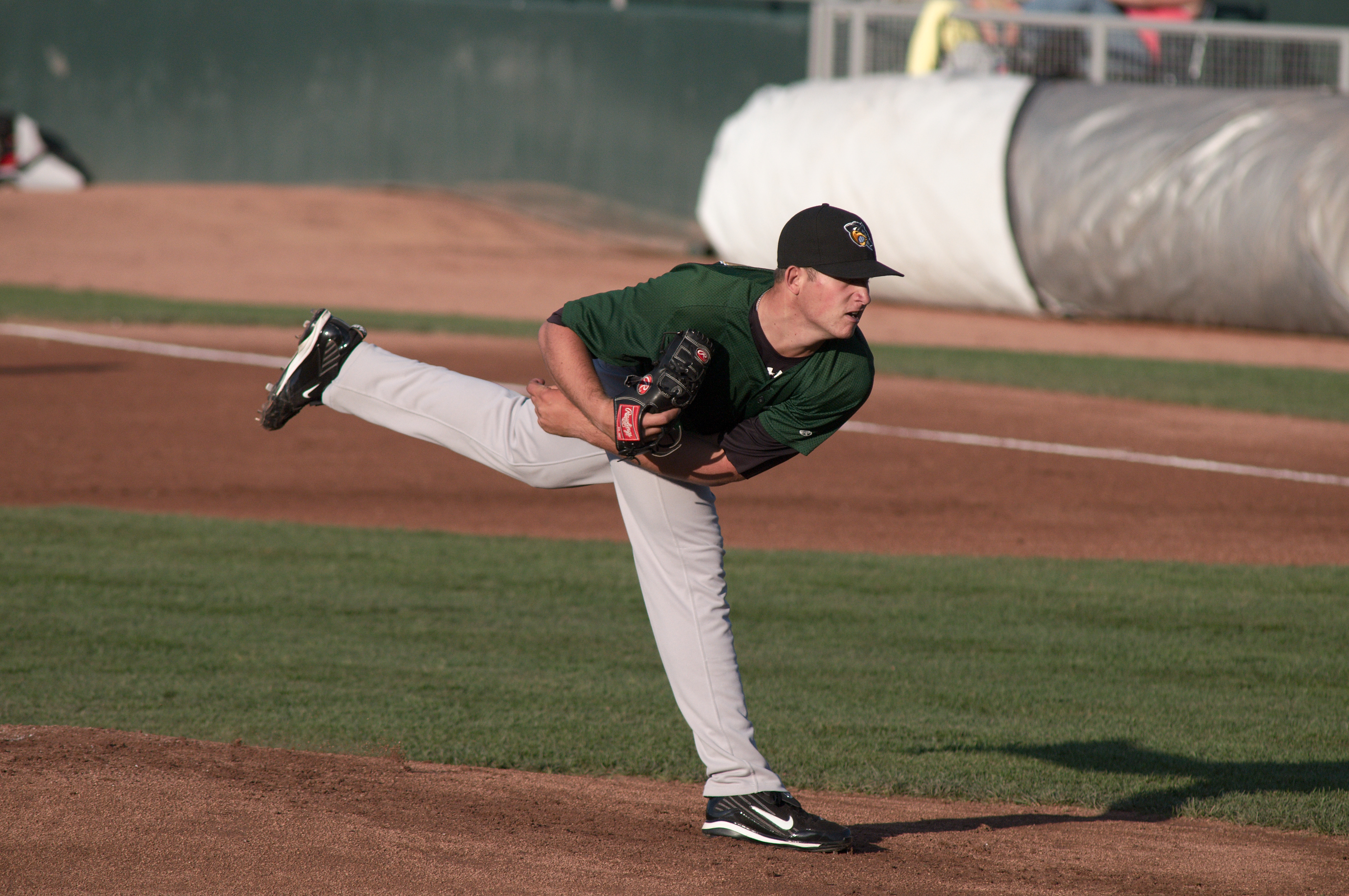 Professional baseball player Michael Belfiore